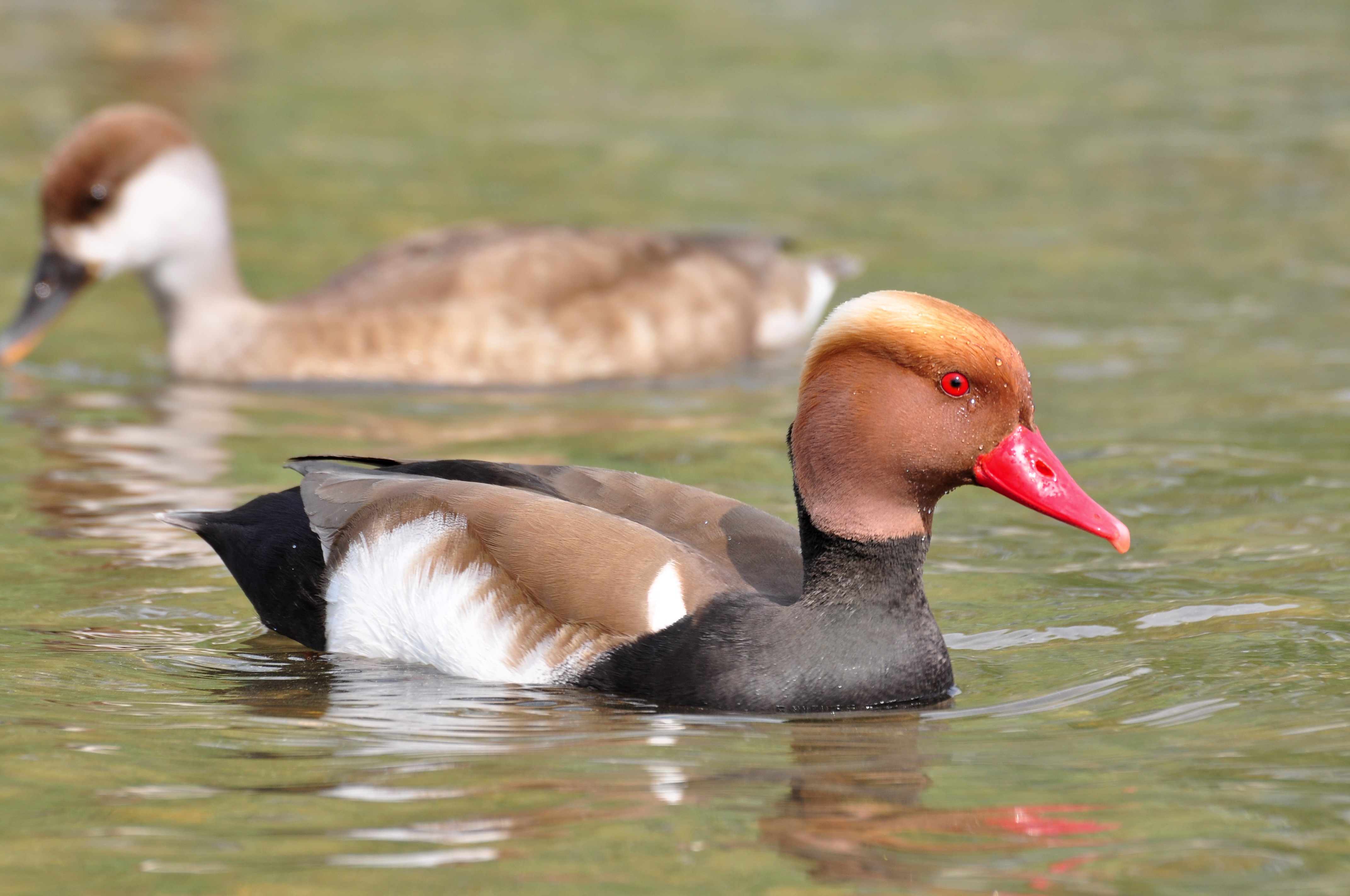 Netta rufina at the so-called Stampf, i.e. the river delta respecitively confluence of Jona river and Obersee (upper Lake Zürich) in Jona (Switzerland)